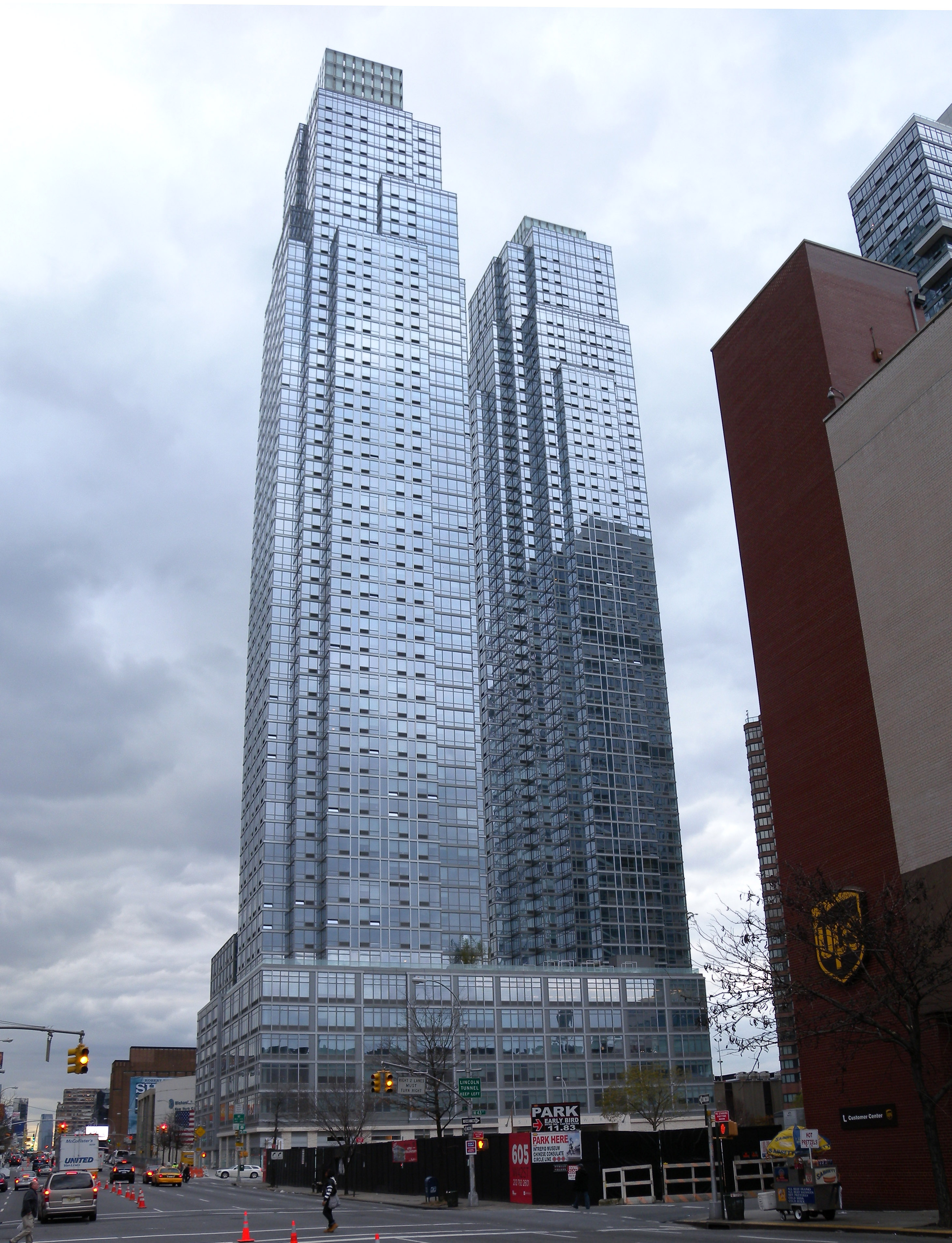 Looking southwest from 44th St and 11th Av at Silver Towers. See also File:Silver Towers jeh.JPG.